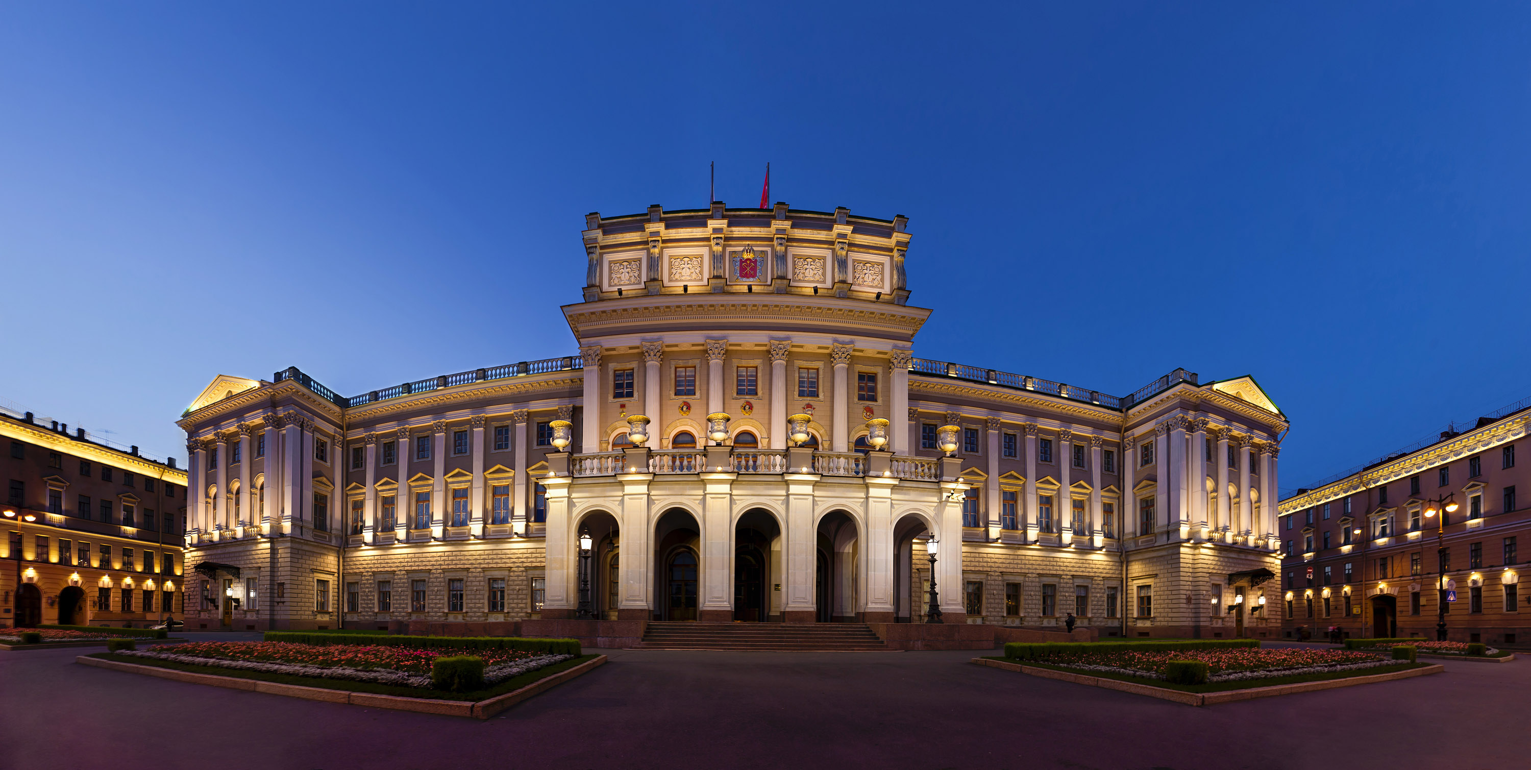 Mariinskiy Palace